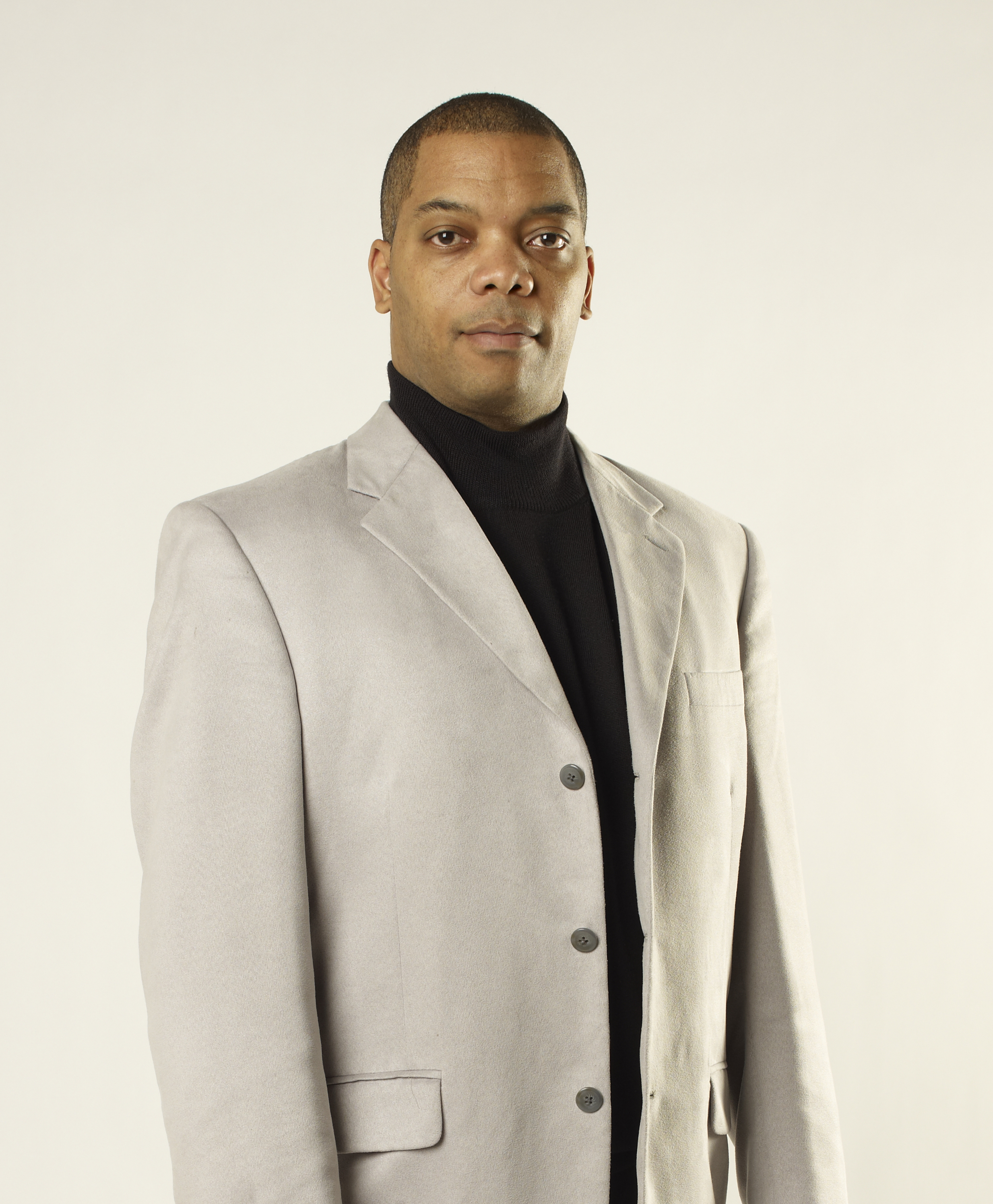 Scott Perry